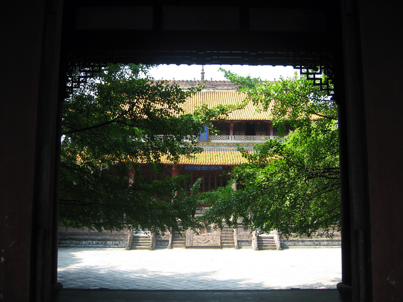 Confucian temple of Chongqing Zhou in Yanhuachi near Chengdu, China